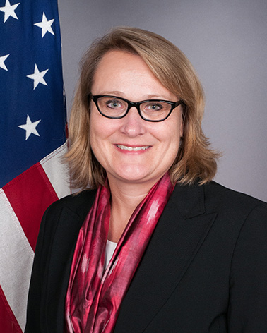 Joan Polaschik, U.S. ambassador to Algeria as of 2016